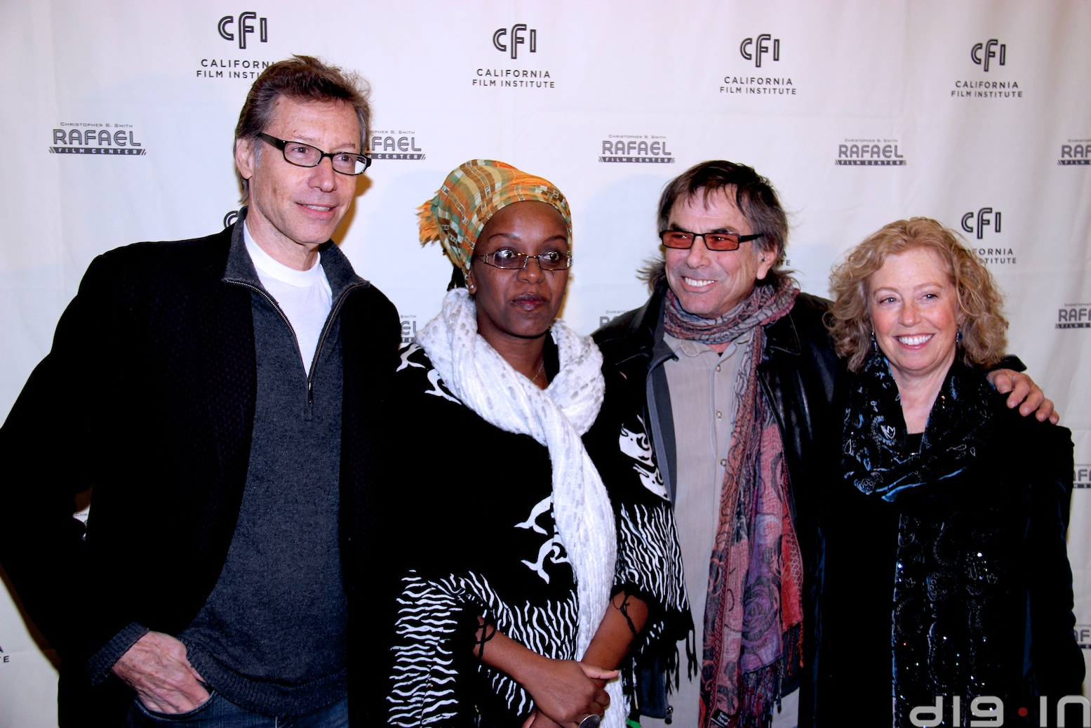 Mickey Hart (second from right) hosted "Sweet Dreams" with founder Kiki Katese and the Ingoma Nshya drummers from Rwanda